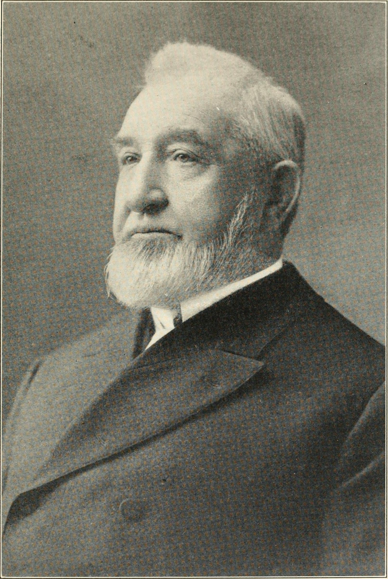 This is a picture of James D. M. Beebe son of Theophilus Beebe. Image from page 74 of "Pilot lore; from sail to steam" (1922).